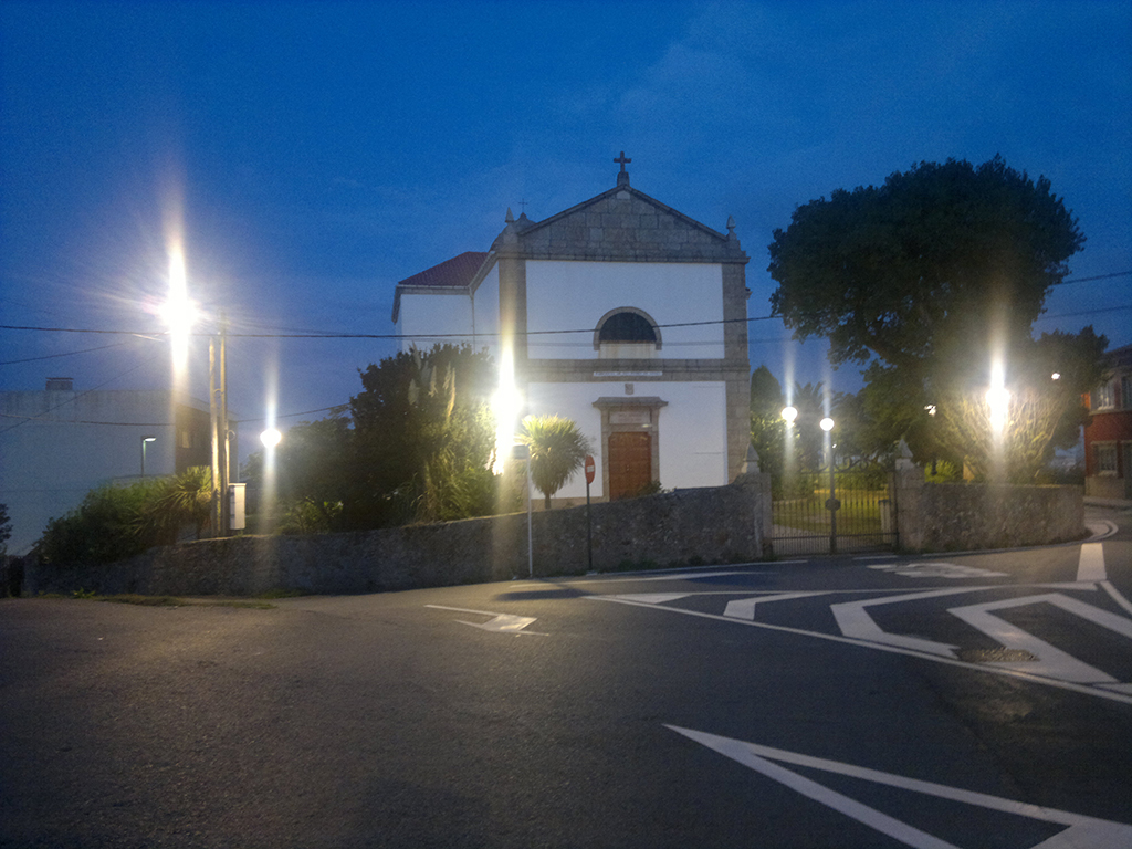 Igrexa de San Pedro de Visma (Visma, A Coruña).